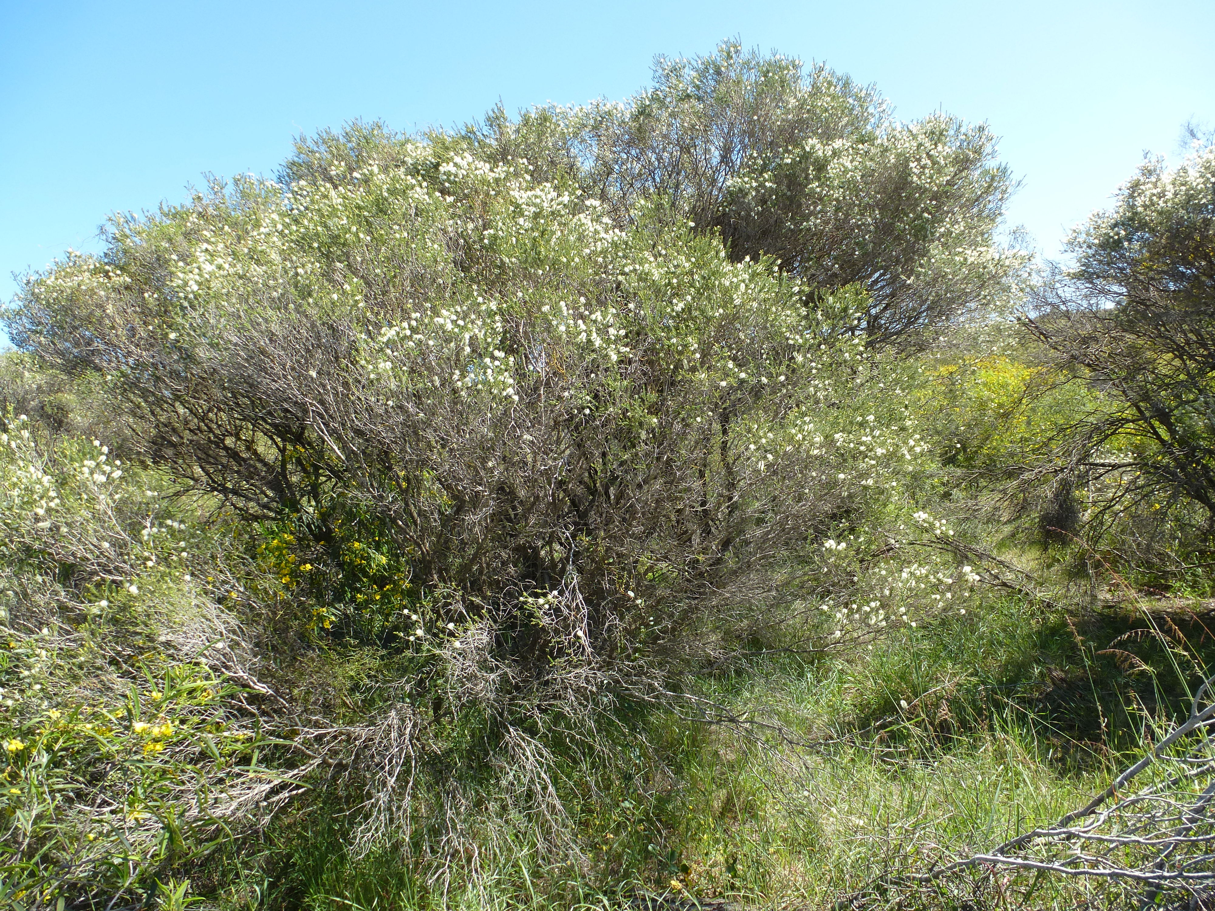 Melaleuca rhaphiophylla growing along White Peak Road near Geraldton